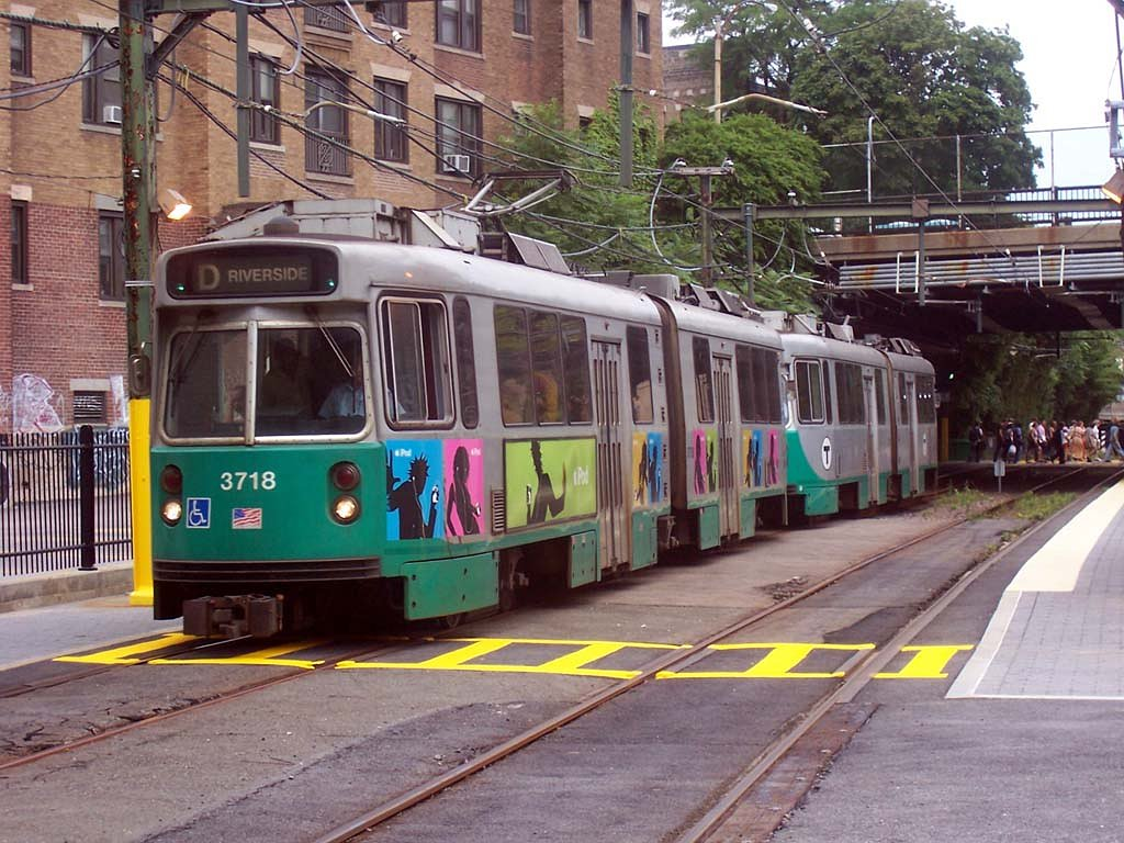 MBTA Green Line "D" train having left the Fenway station bound for Riverside.